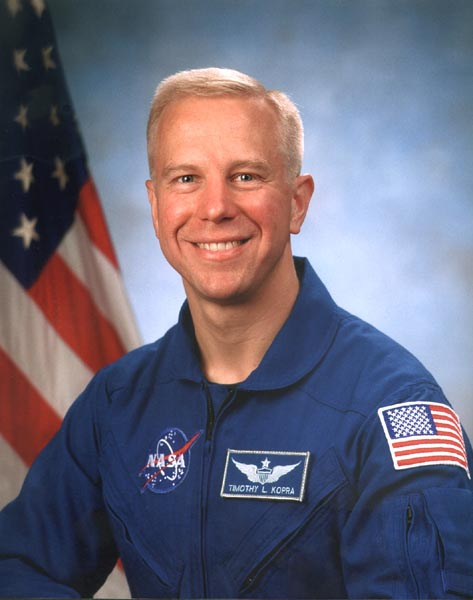 portrait astronaut Timothy L. Kopra